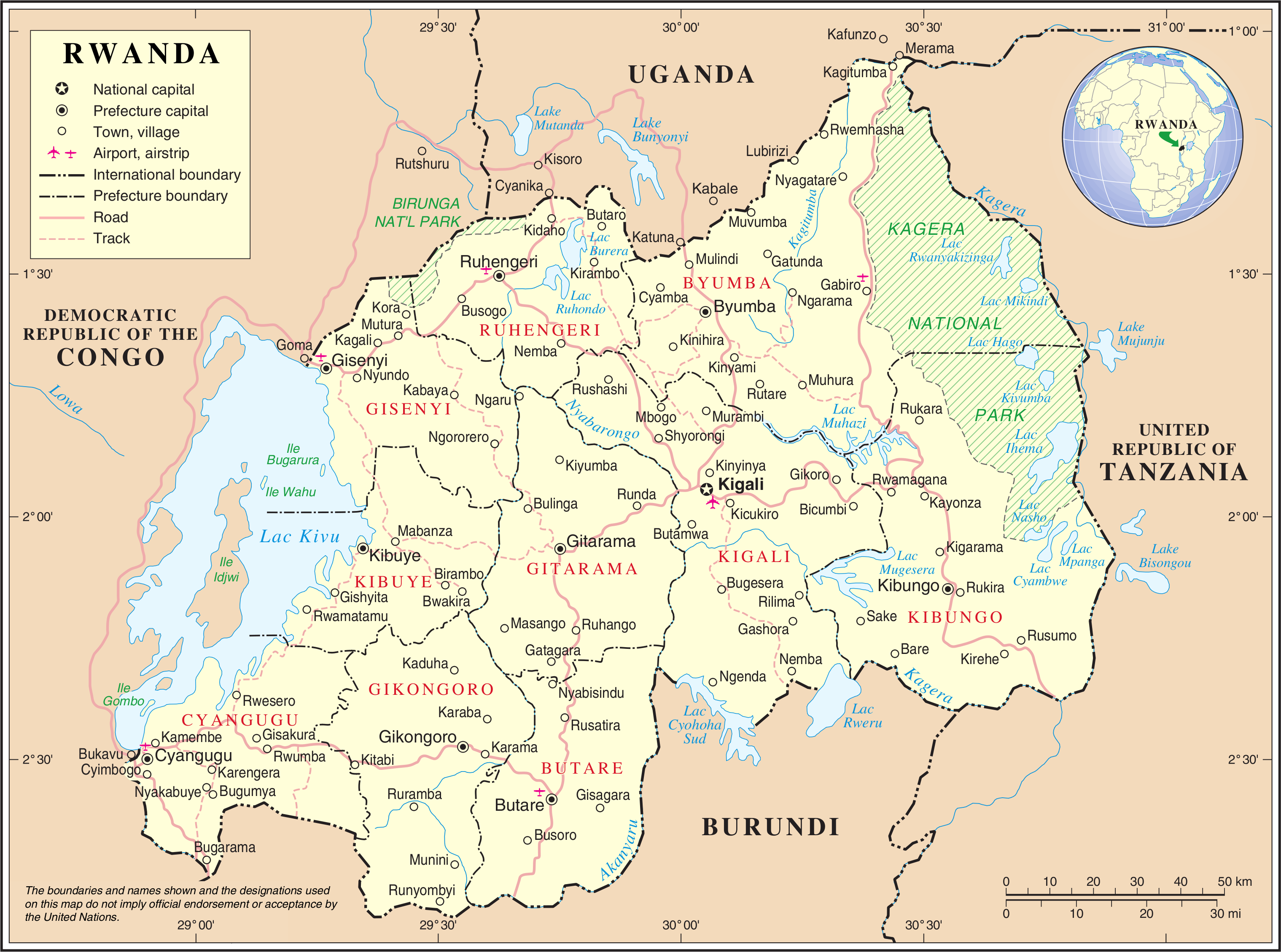 United Nations Map showing Rwanda prior to the reform of its subdivision in 2006